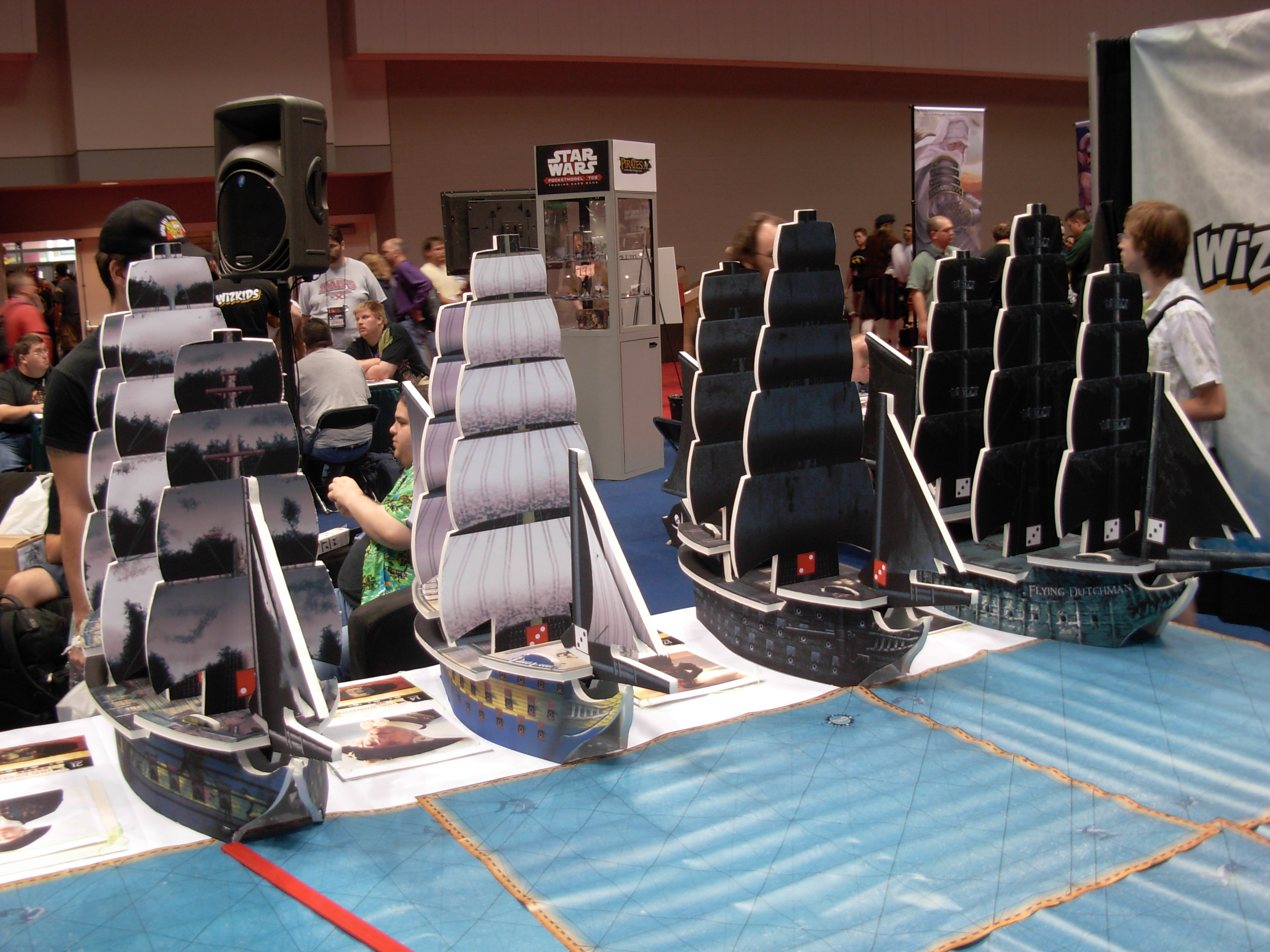 Photos from Gen Con Indy 2007. Big models advertising the Pirates game.